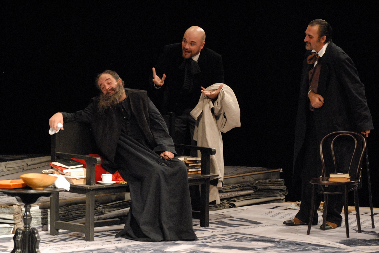 "Was There the Prince's Dinner" written and directed by Vida Ognjenović, Drama of the SNT, Novi Sad, 2008/09; Boris Isaković, Nenad Pećinar, Predrag Momčilović Srpski (latinica): "Je li bilo kneževe večere", napisala i režirala Vida Ognjenović; Drama SNP-а, 2008/09; Boris Isaković, Nenad Pećinar, Predrag Momčilović Српски (ћирилица): "Је ли било кнежеве вечере", написала и режирала Вида Огњеновић; Драма СНП-а, 2008/09; Борис Исаковић, Ненад Пећинар, Предраг Момчиловић